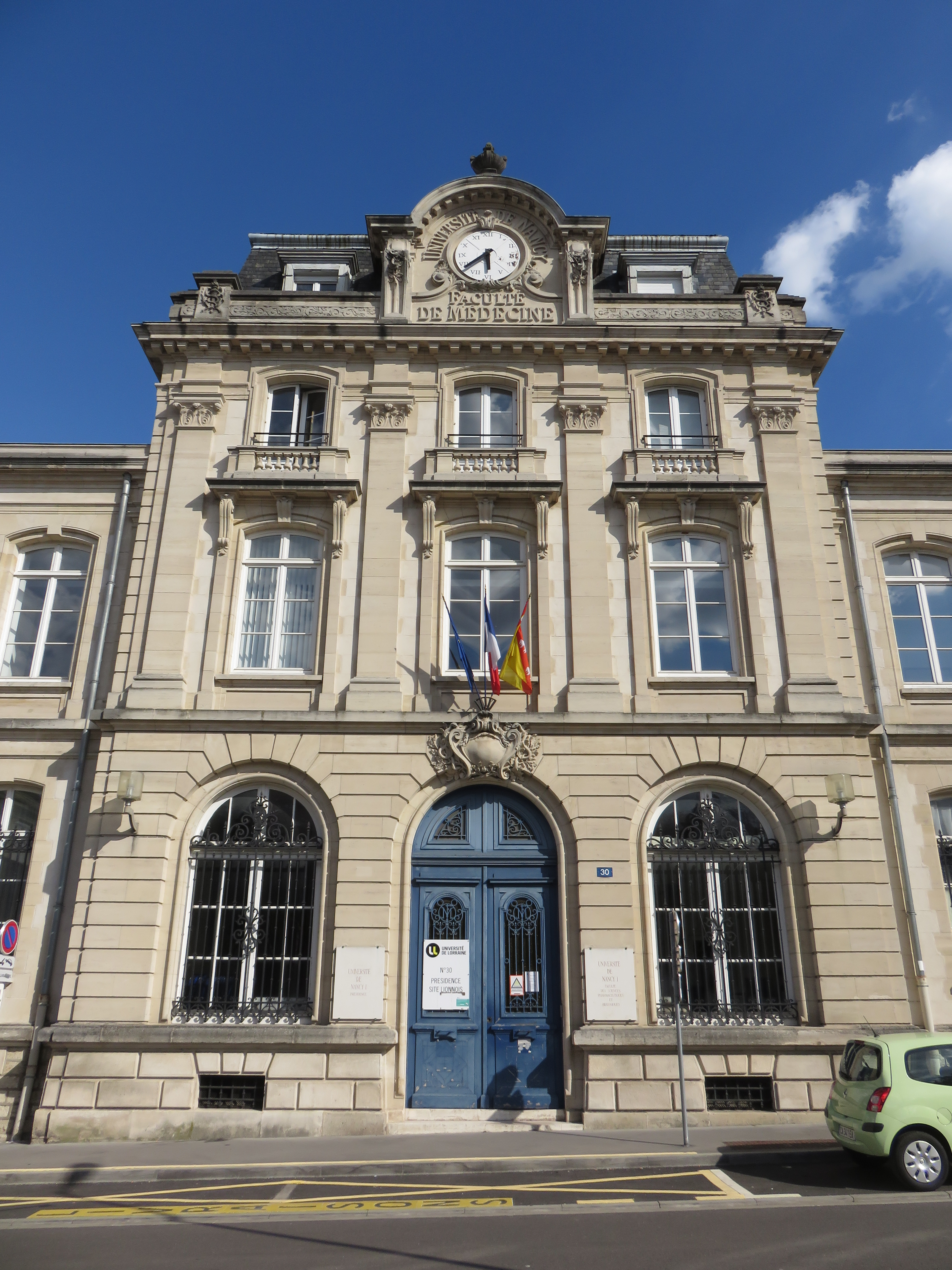 University of Lorraine Faculty of Medicine in Nancy, France in 2018